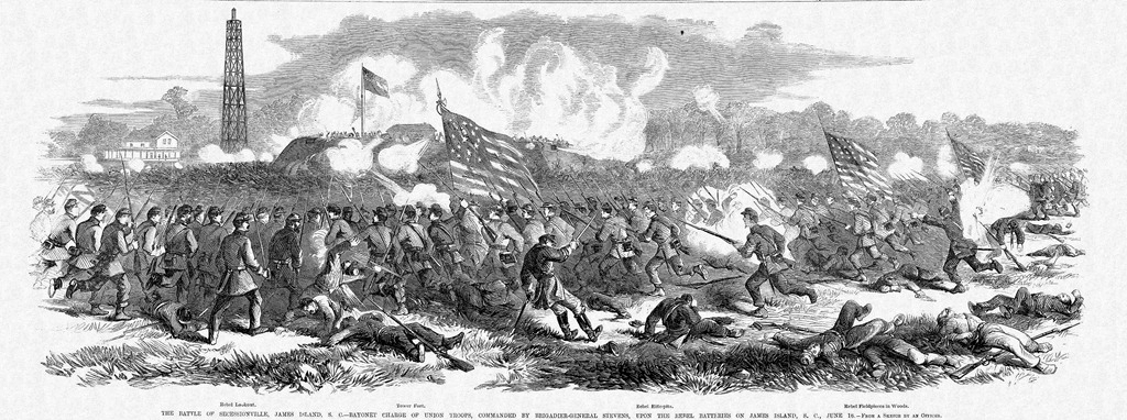 This image depicts the Battle of Secessionville. Confederate forces defeated the Union's only attempt to capture Charleston, South Carolina, by land.